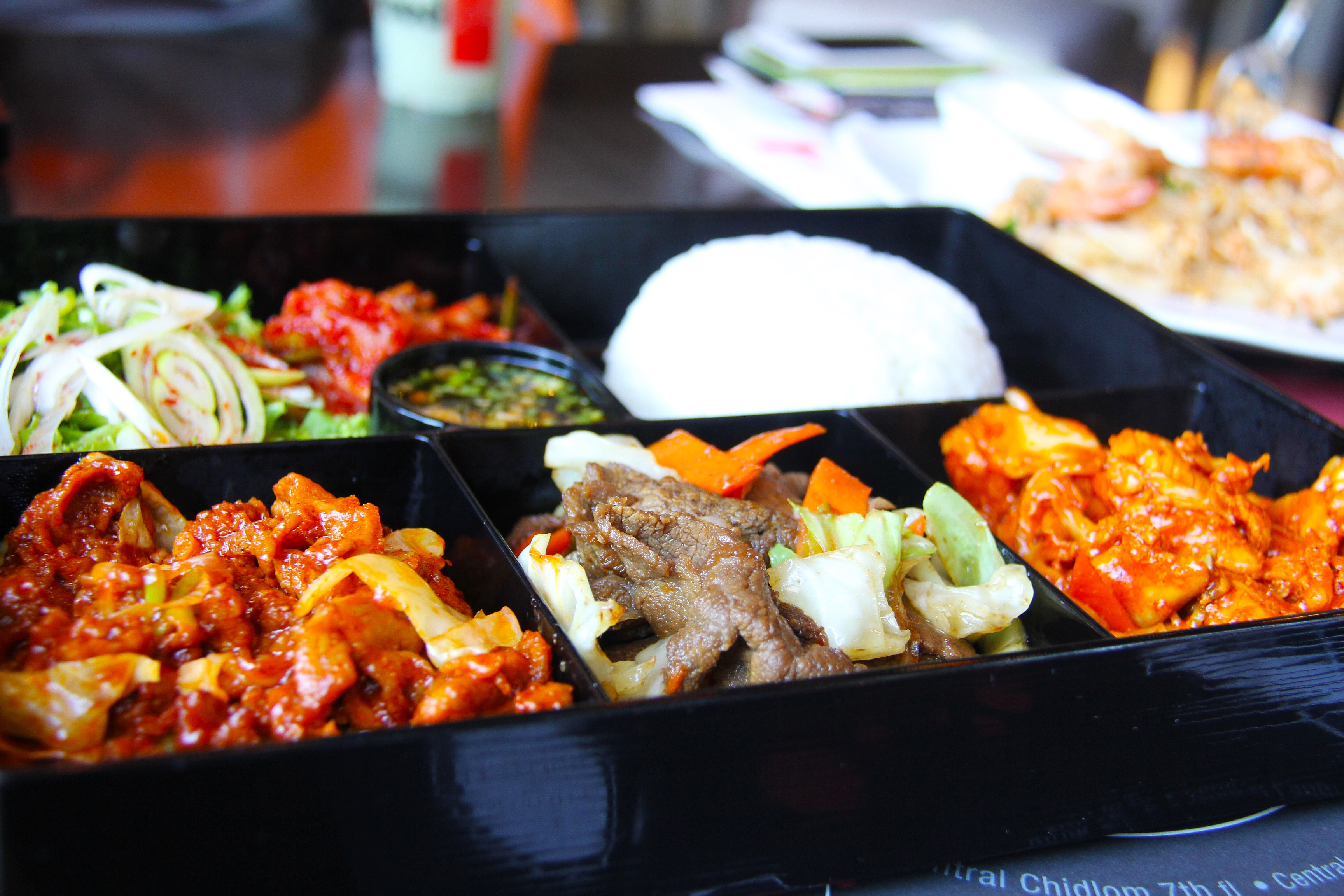 dosirak (lunch box)